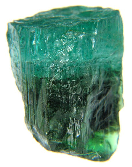 Elbaite Locality: Minas Gerais, Southeast Region, Brazil (Locality at ) Size: 1.9 x 1.5 x 1.4 cm. A beautiful partial Tourmaline crystal showing a vibrant popsicle blue color at the cap and a rich green shade below. There are several gemmy areas in the piece, and is rather lustrous. The crystal is not complete, but the color is outstanding.